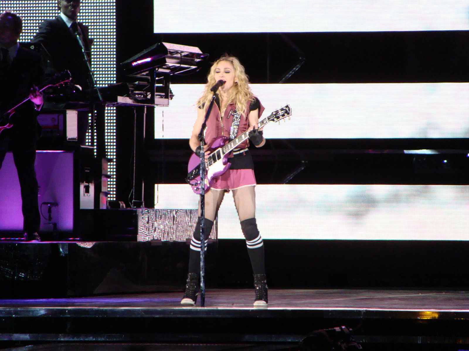 Photo of the concert